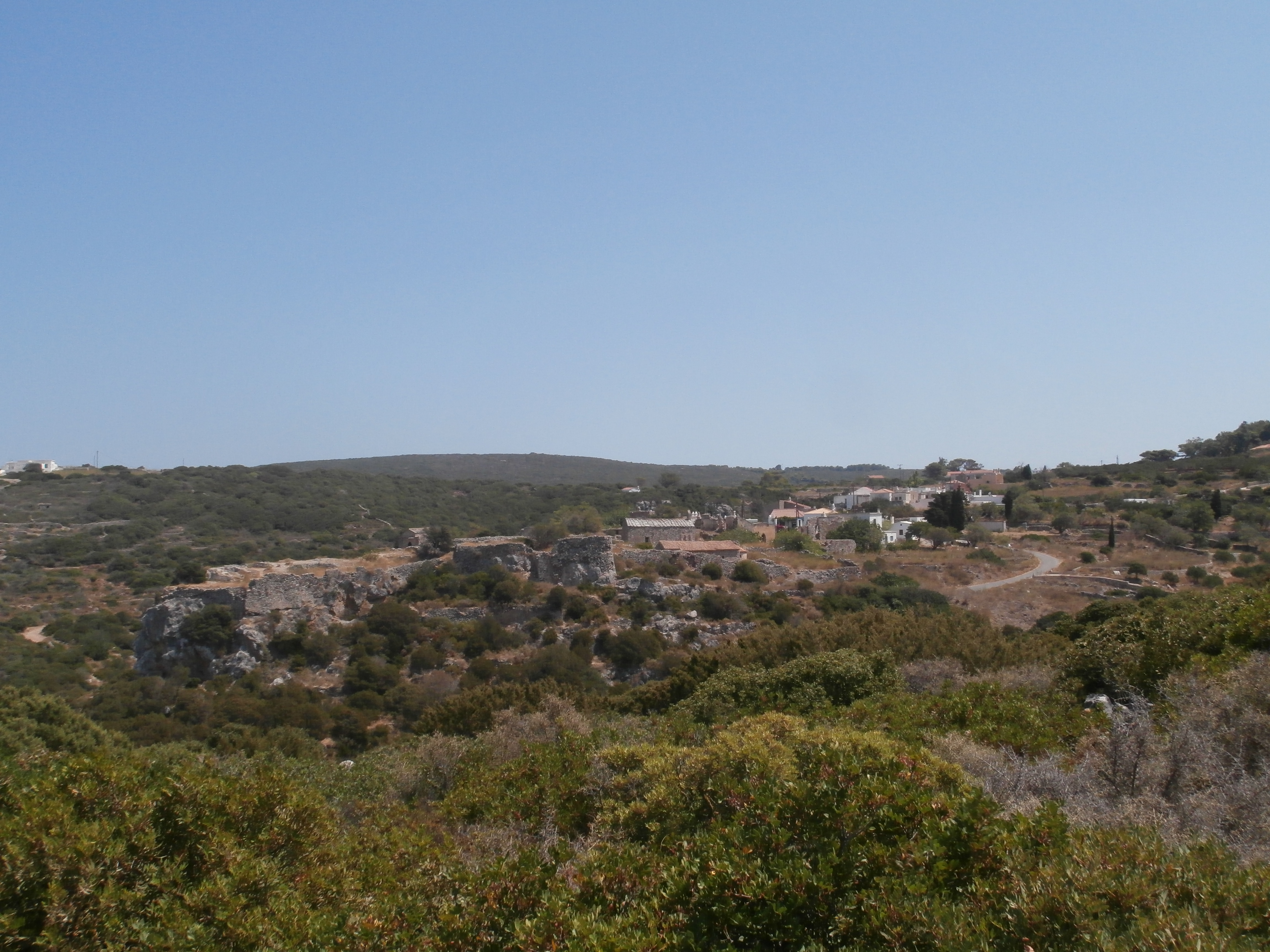 Mylopotamos Castle general view